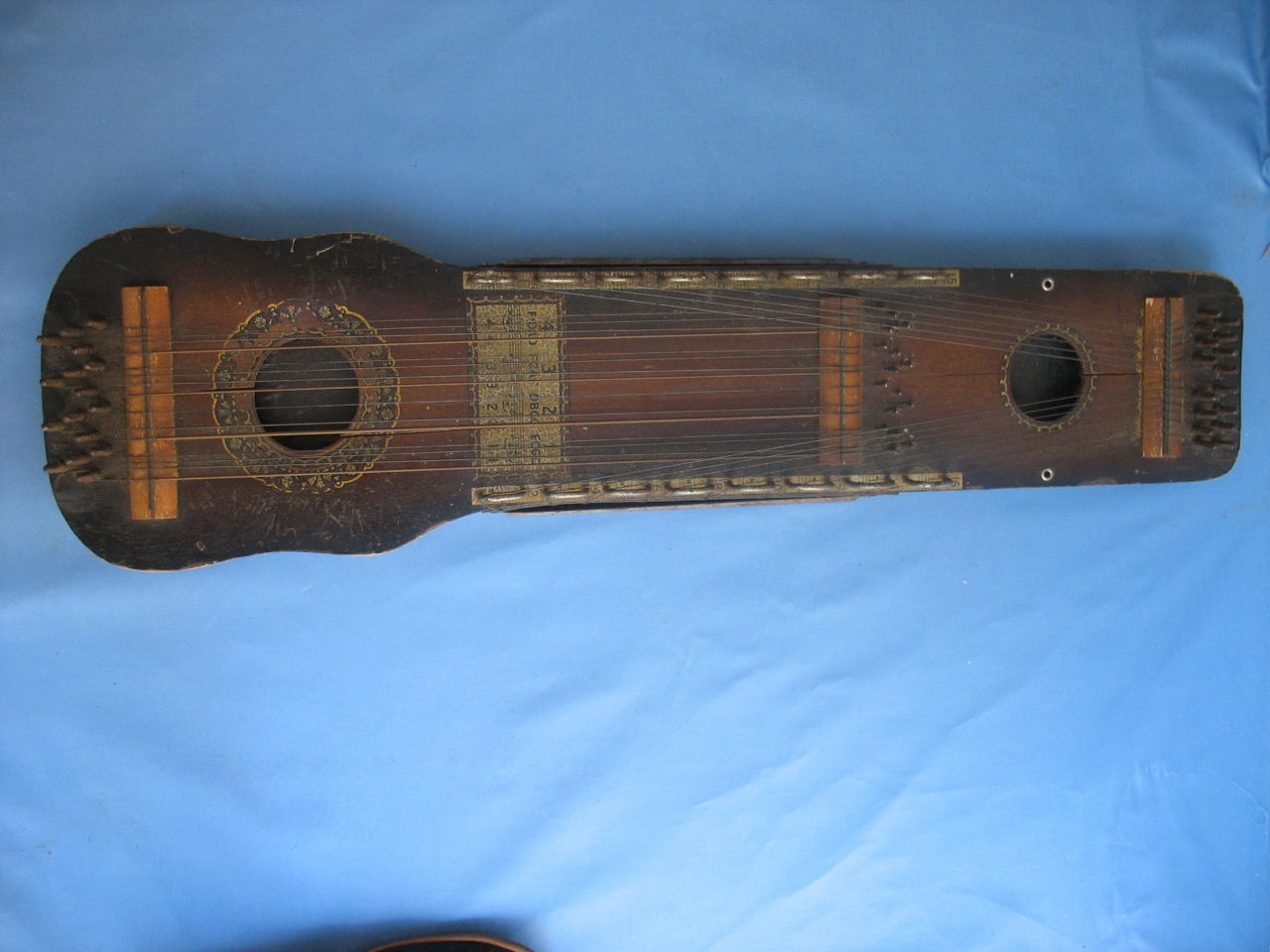 Ukelin Wooden, stringed instrument 32 strings - 16 strings for bowing, another 16 strings for chord strumming (missing one) vintage Piece on side loose Cracks to several areas Most likely un-playable Price $39.00 UKELIN Distributed Exclusively by the Manufacturers' Advertising Co, 93 Forty Street All proceeds help us continue the fight against HIV/AIDS and homelessness